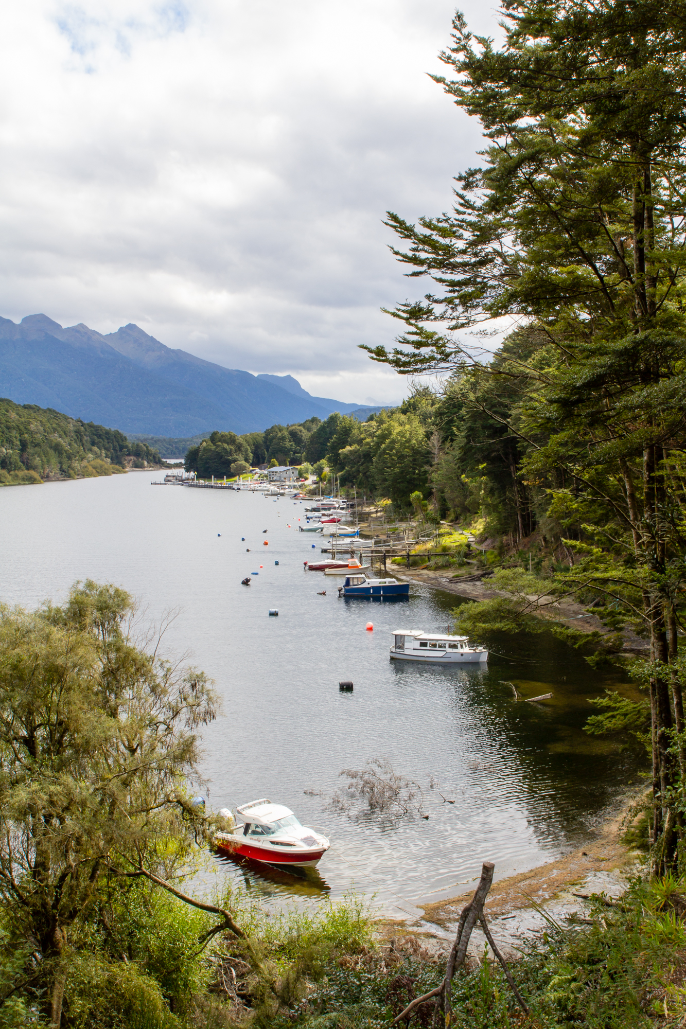 Pearl Harbour on the Waiau River, near Manapouri, New Zealand